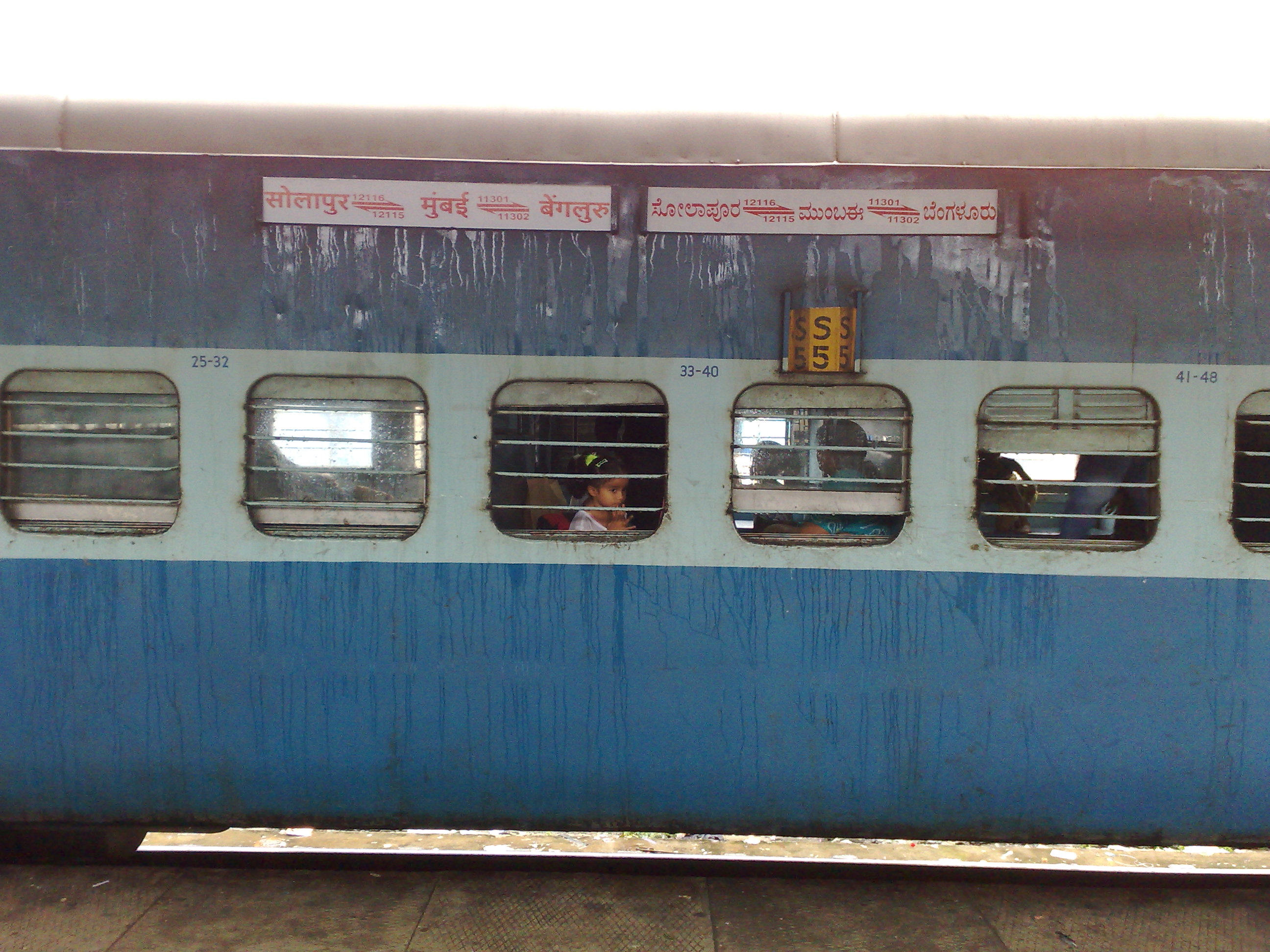 11301 Udyan Express Sleeper coach